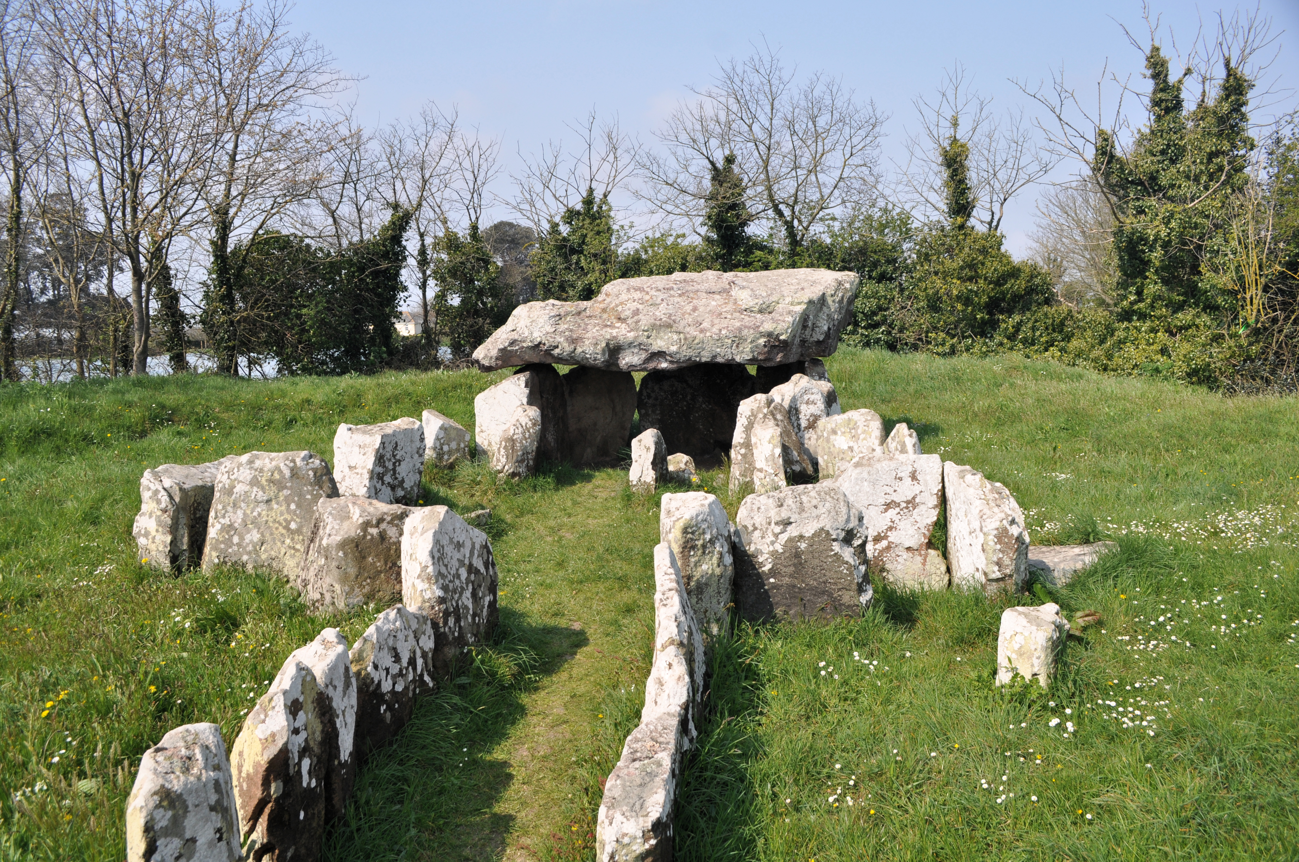 La Pouquelaye de Faldouet Dolmen in Saint Martin, Jersey